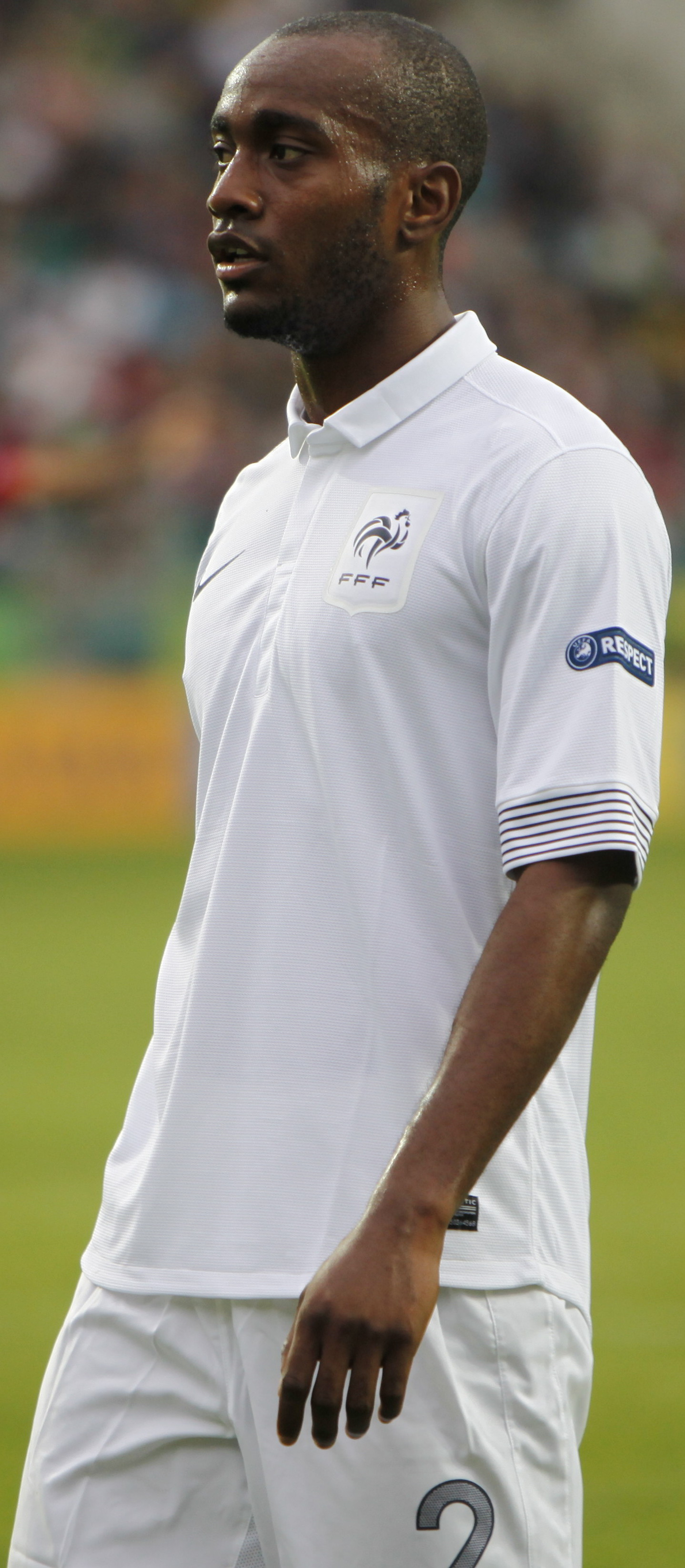 U-19 Spain vs France.